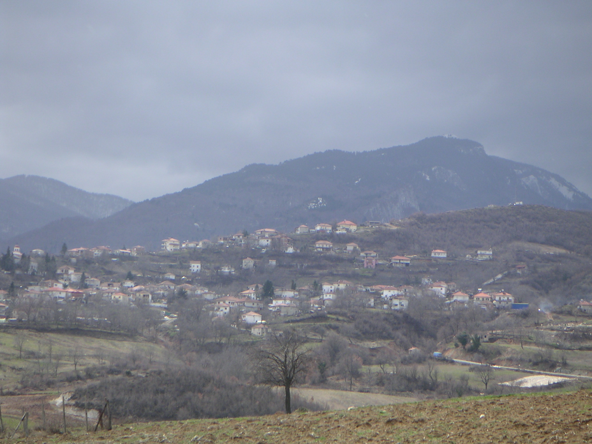 Ritinio, Pieria, Greece